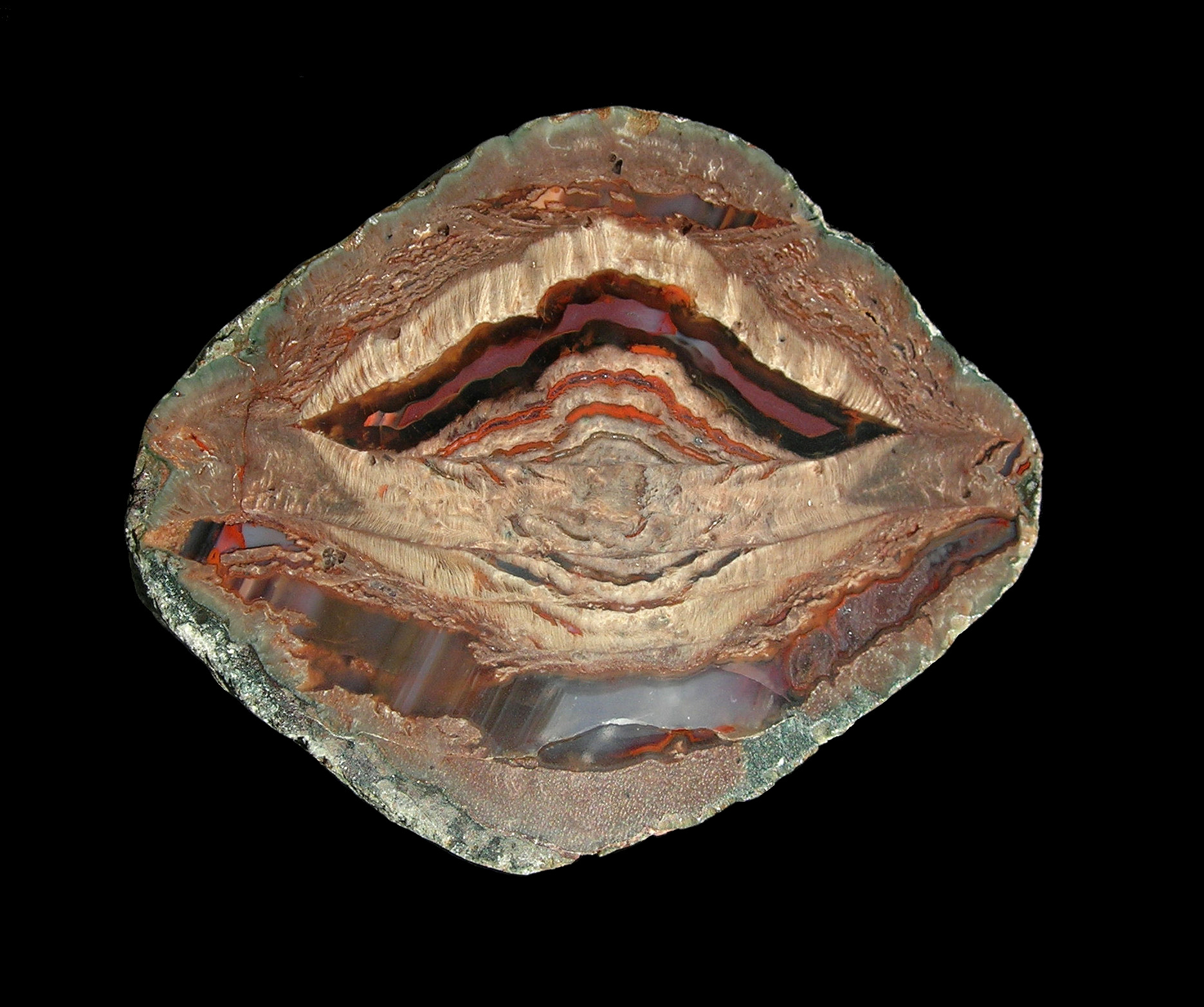 Agate